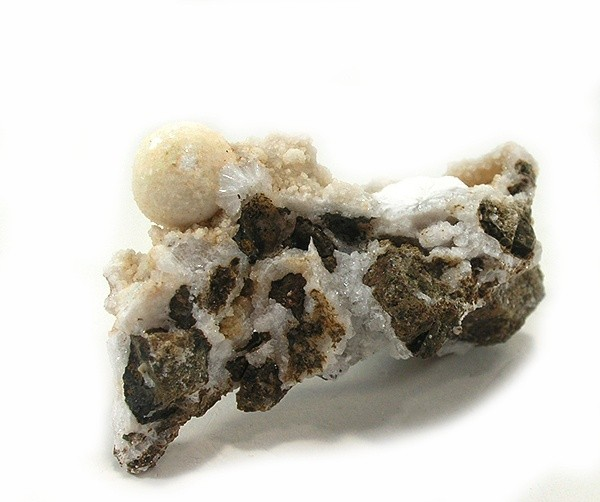 Phillipsite Locality: Palagonia, Northern Iblean plateau, Catania Province, Sicily, Italy (Locality at ) This is a fairly rare member of the zeolite family that at times can have calcium, or potassium, or sodium as its chief constituent. Phillipsite has cemented brecciated rock and formed a series of botryoidal groups, the largest of which measures 1.0 cm across. These spheres are snow white, and lustrous. I am told it is quite good for the locality! 5.6 x 3.4 x 1.8 cm